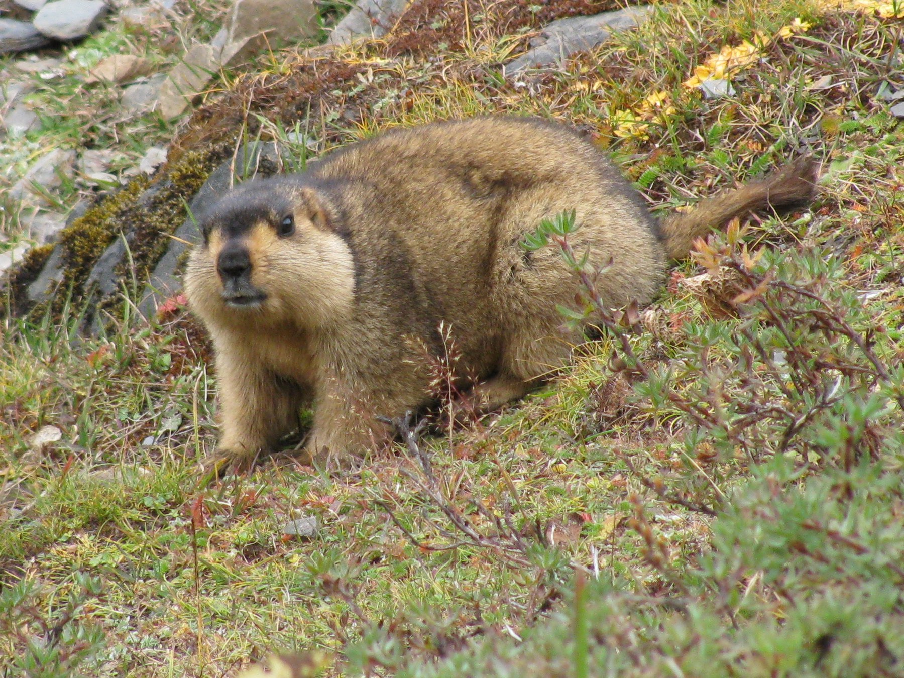 Himalayan Marmot - (Marmota himalayana) - photographed at Tshophu Lake altitude 4100 metres near Jangothang, Bhutan.